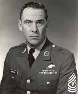 Medal of Honor recipient 1st Sgt. David H. McNerney